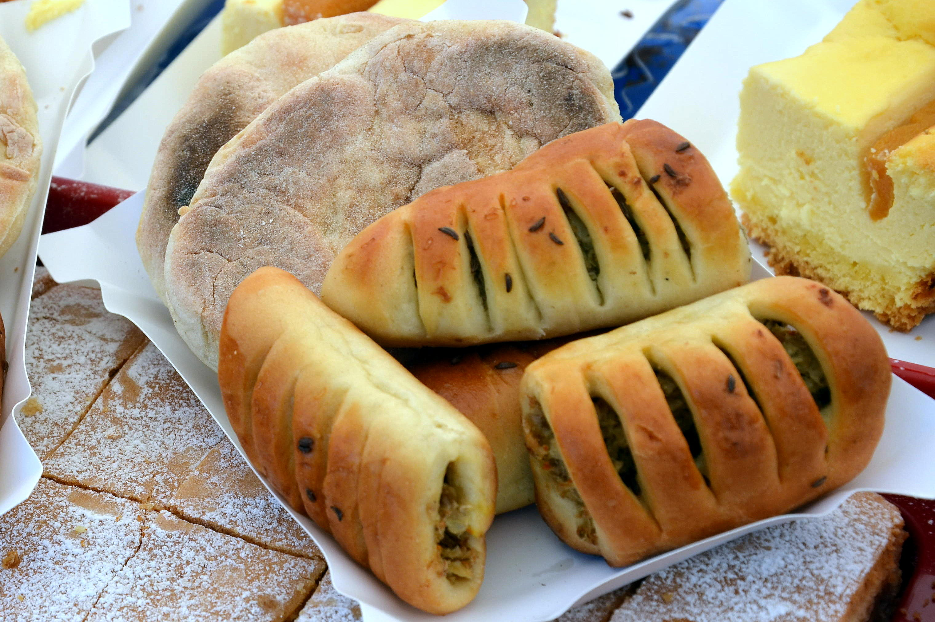 Beskidischer Kuchen